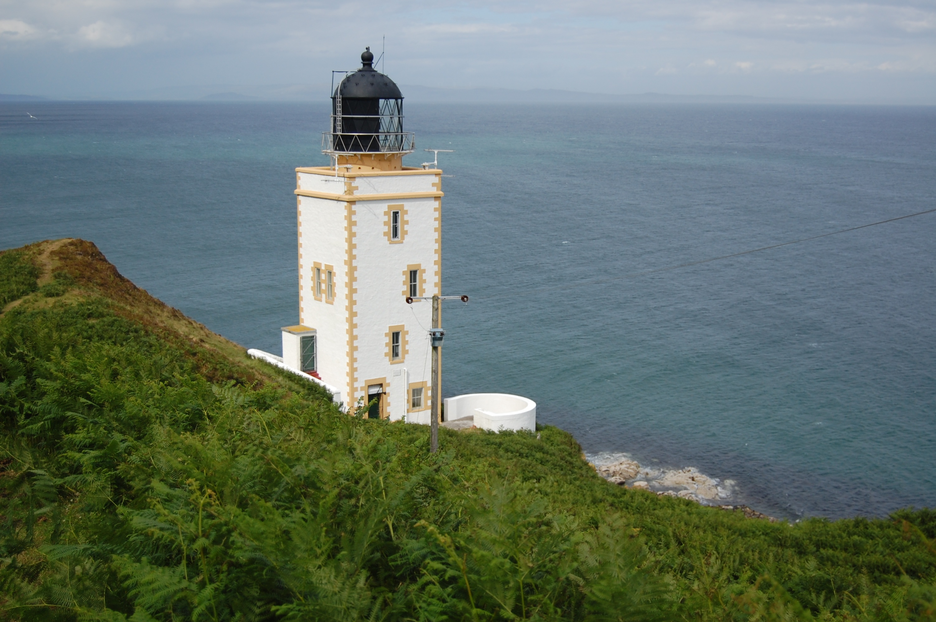 South East light house on Holy Isle, off the Isle of Arran, Scotland.